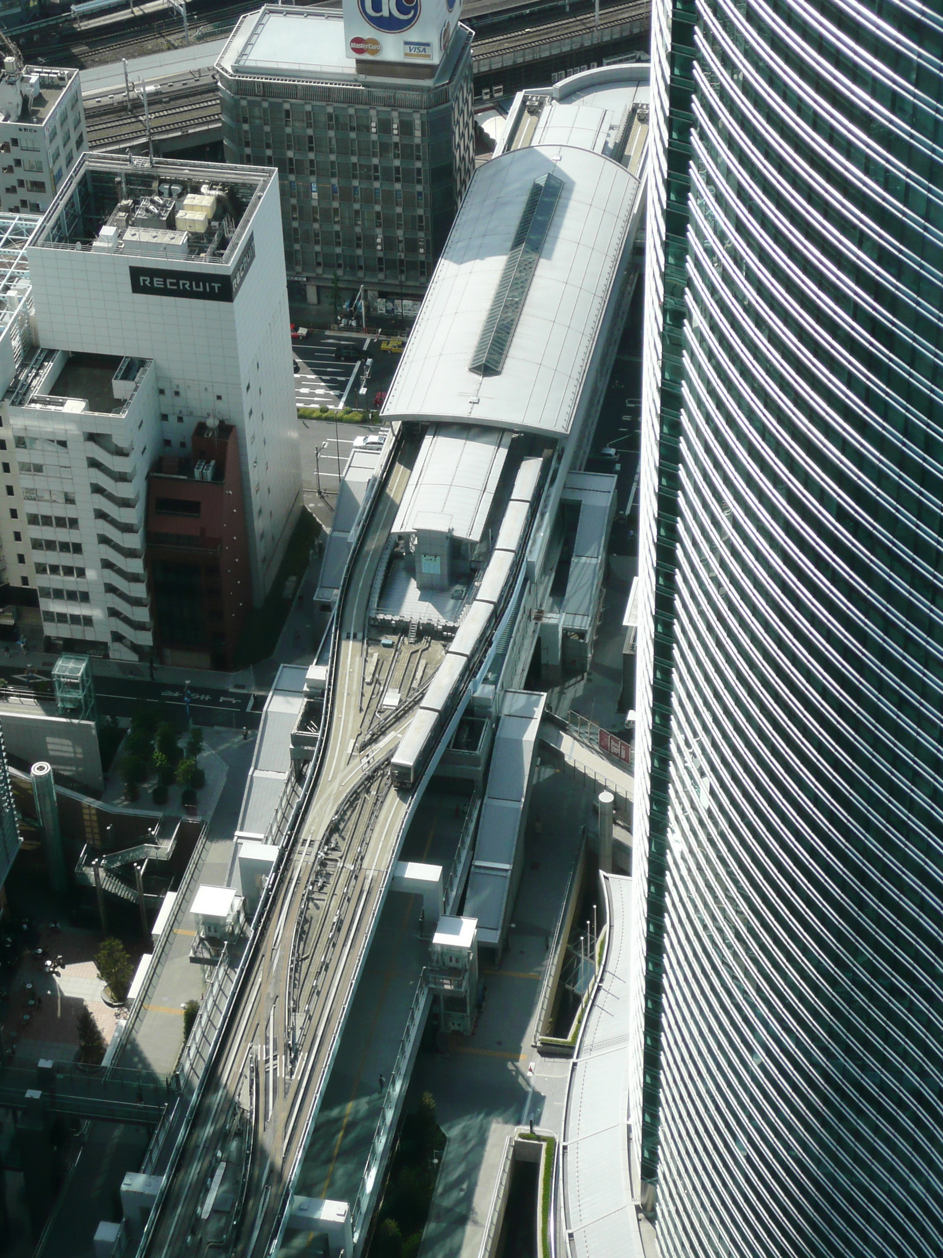 The look down from Dentsu Building at the New Transit Yurikamome Shinbashi station.